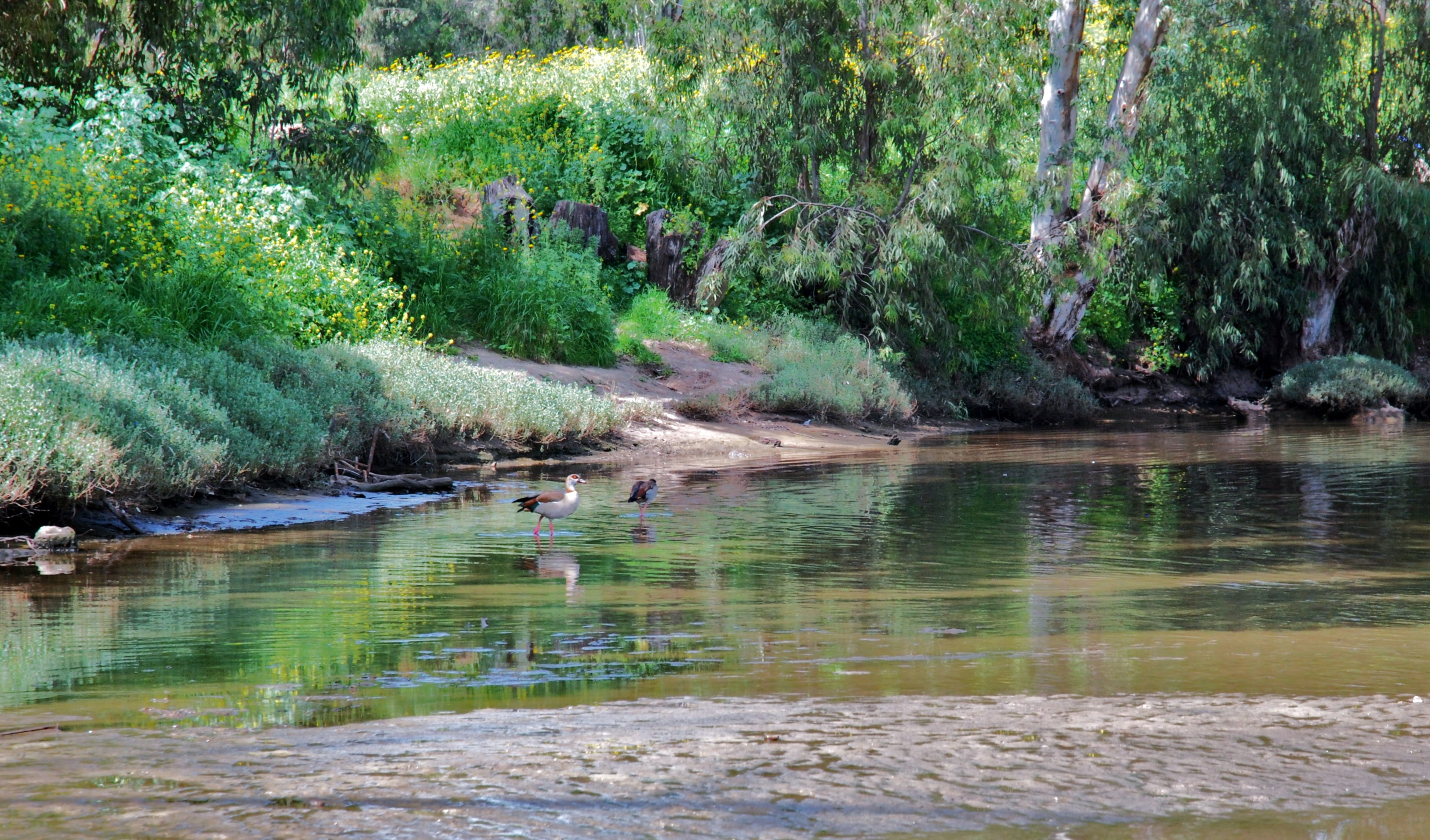 On the banks of the Yarkon River, Geography of Israel